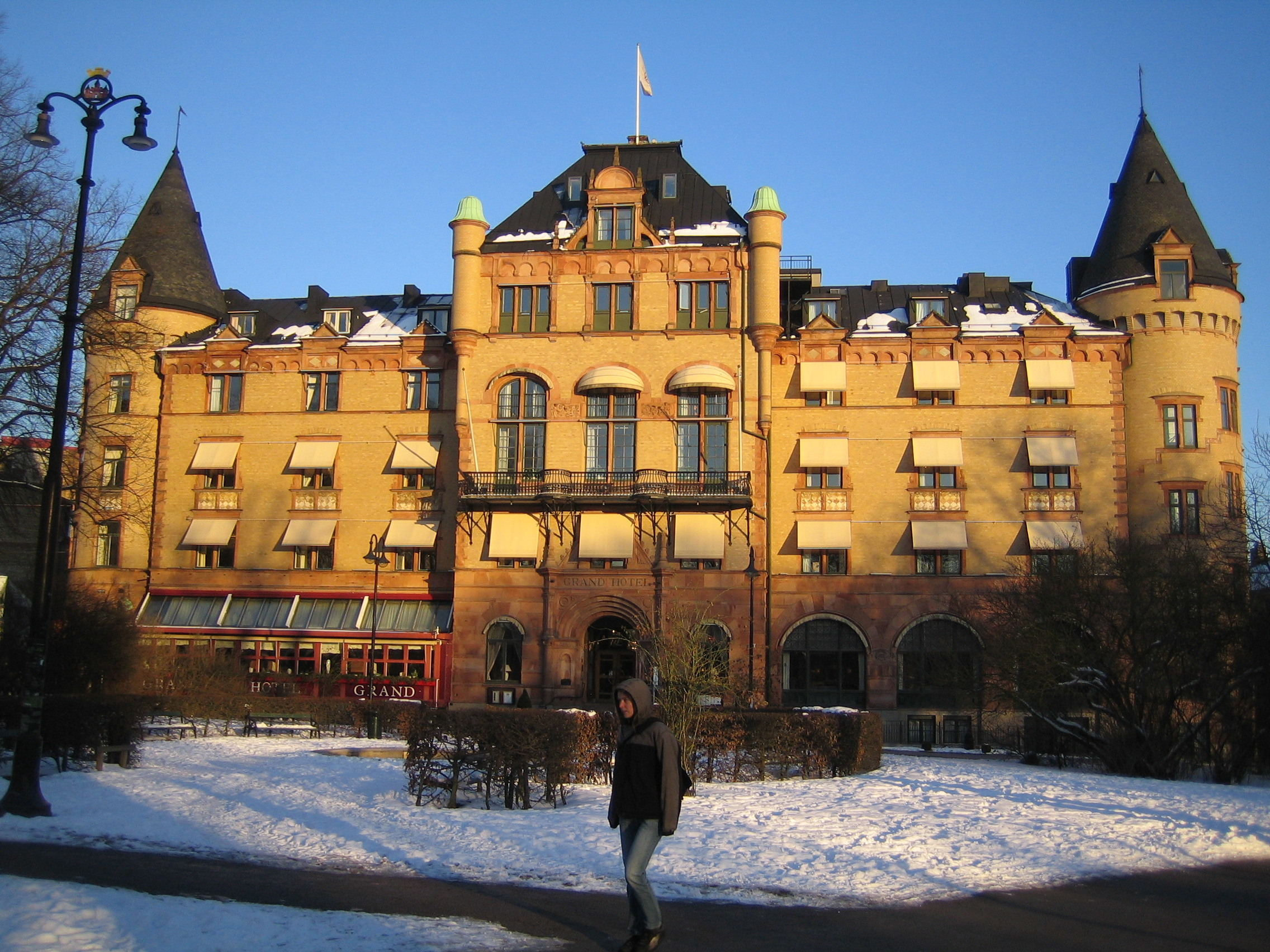 Picture of Grand Hotel in Lund, Sweden.